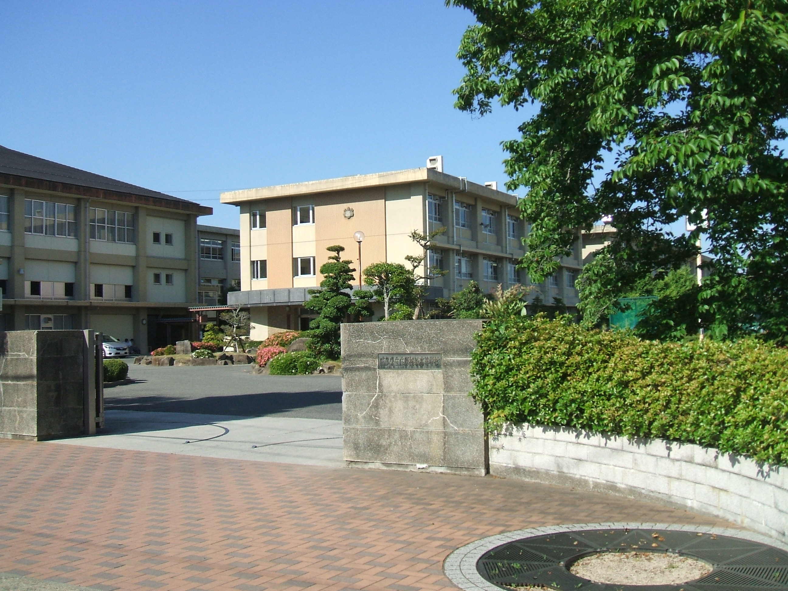 Shobara Kakuti Highschool